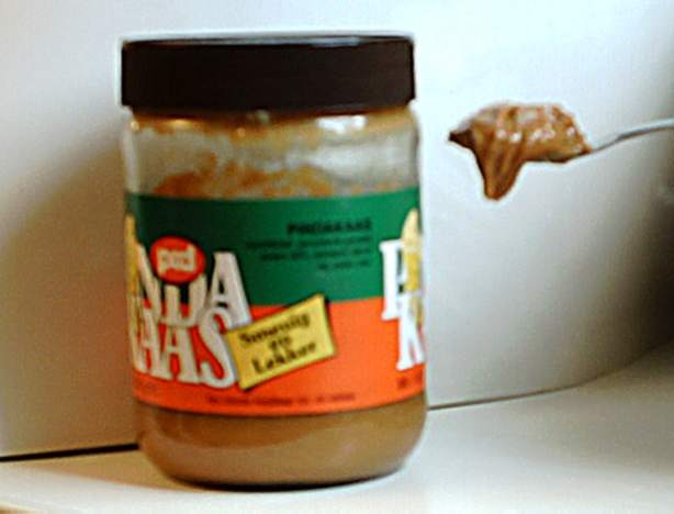 Glass of peanut butter from the Netherlands, with filled teaspoon.